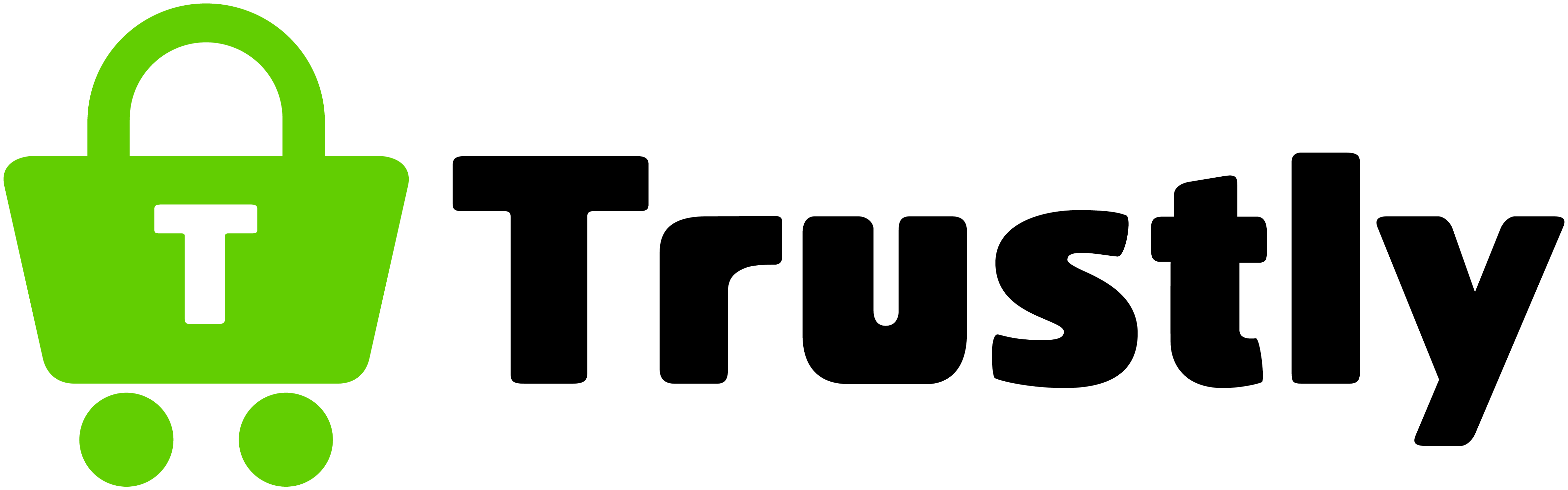 The logo of Trustly Group company